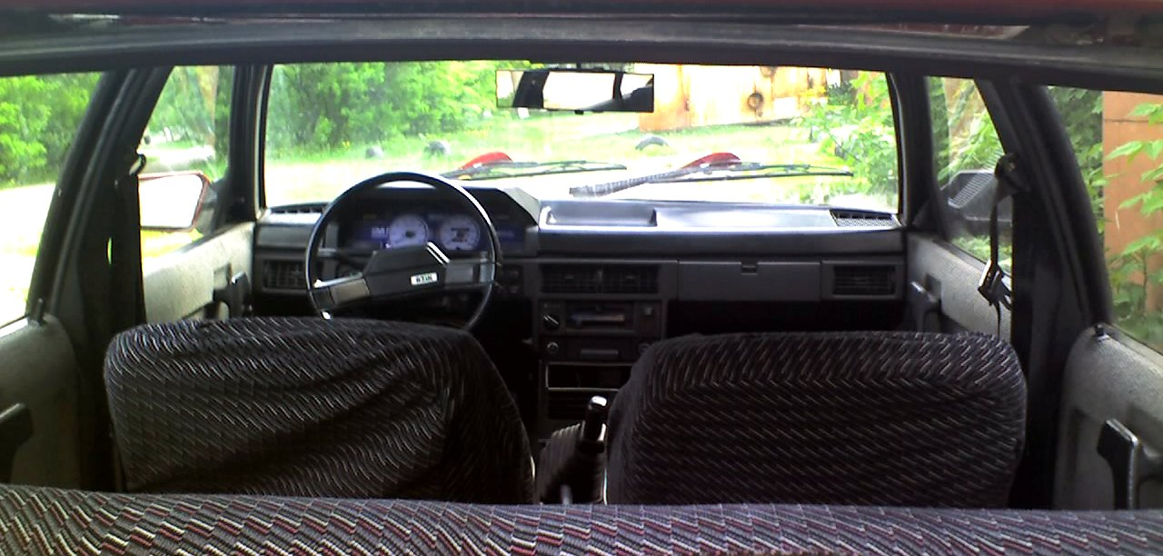 My Moskvitch Aleko 1500's dash